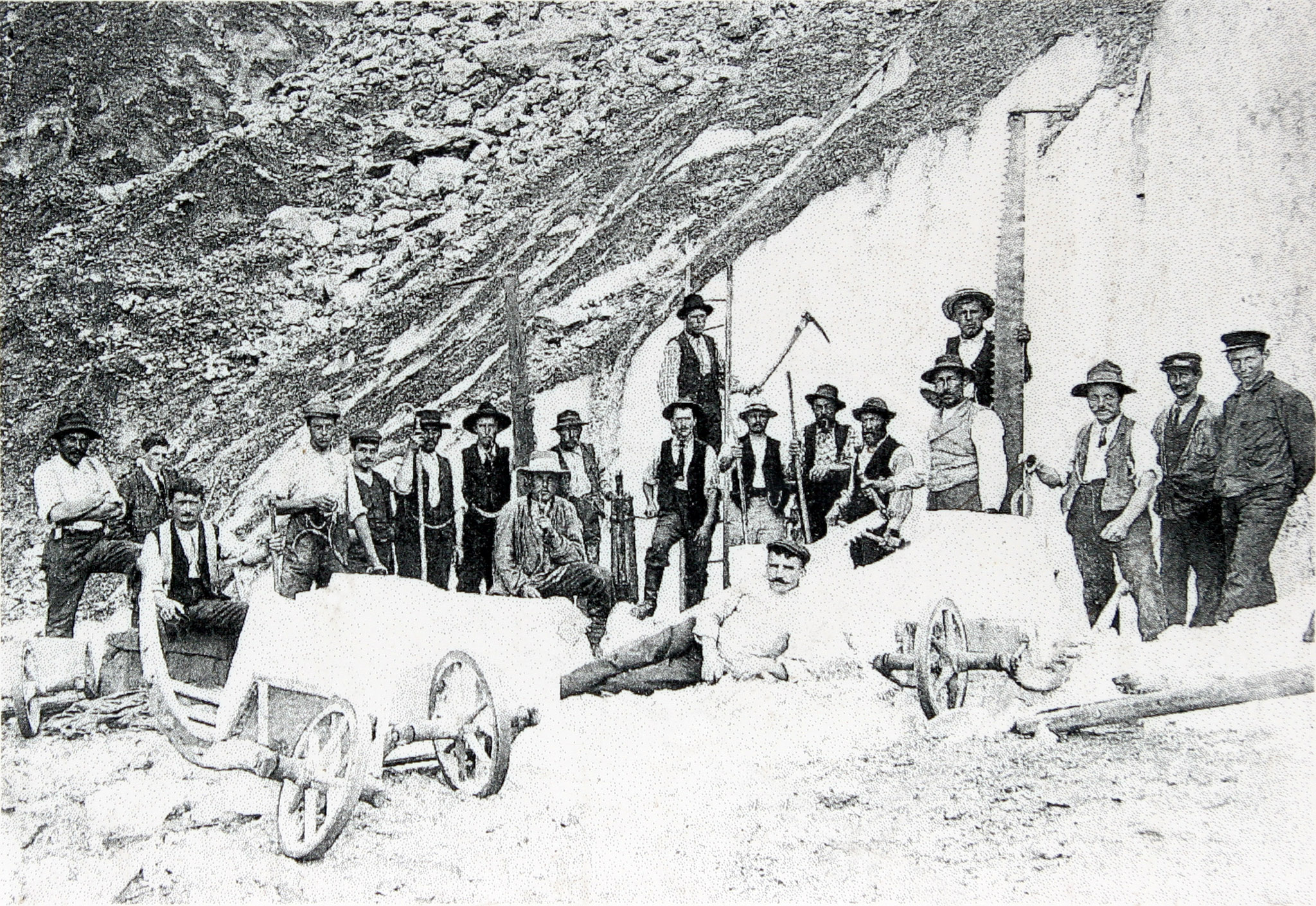 Ice-workers at the Lower Grindelwald Glacier. The ice was exported from 1860 to 1914.